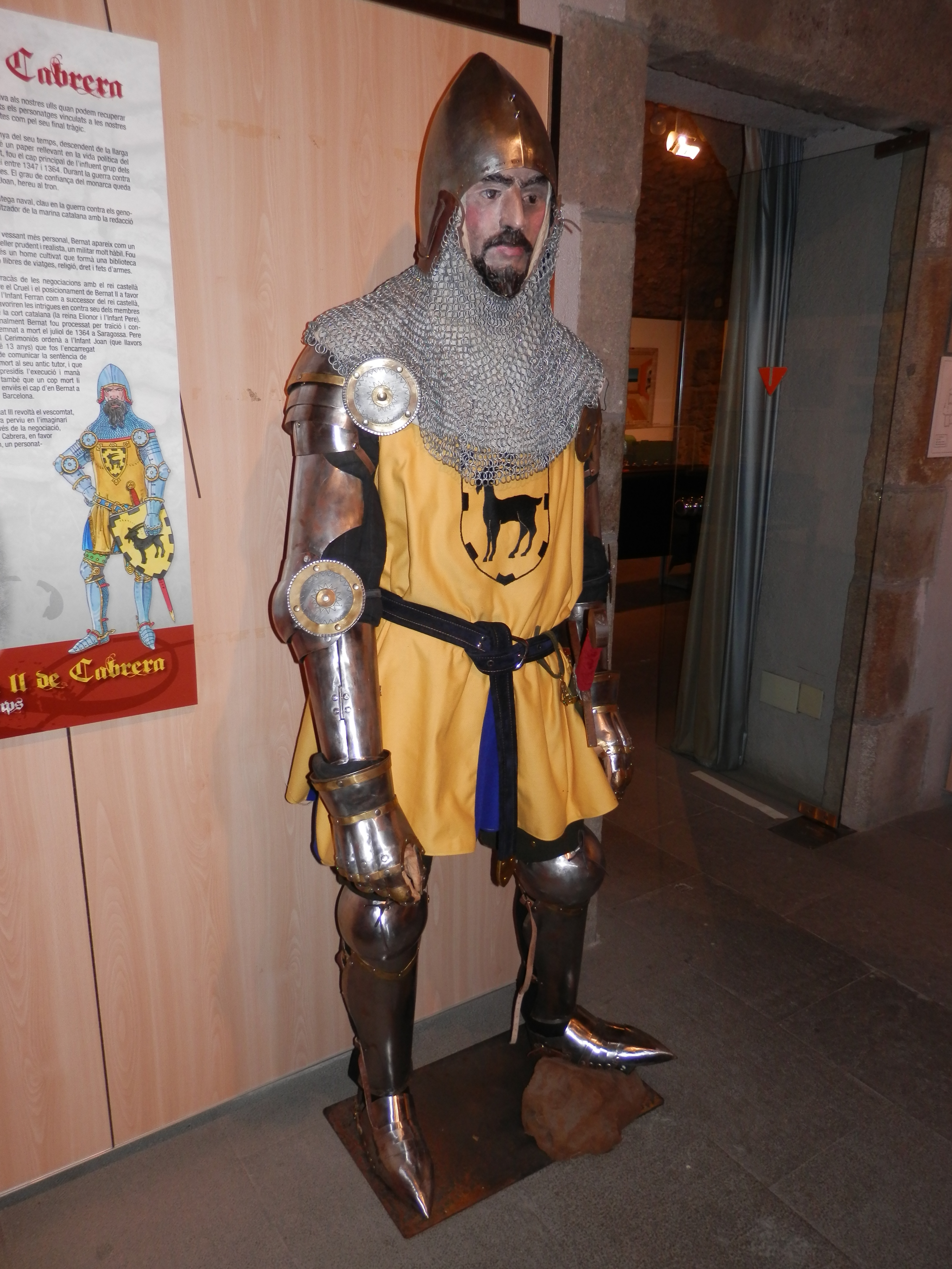 Reproduction of the clothing of the viscount of Cabrera Bernat II. This was part of the expo: Bernat II de Cabrera i el seu temps of the Museu Etnològic del Montseny la Gabella of Arbúcies.